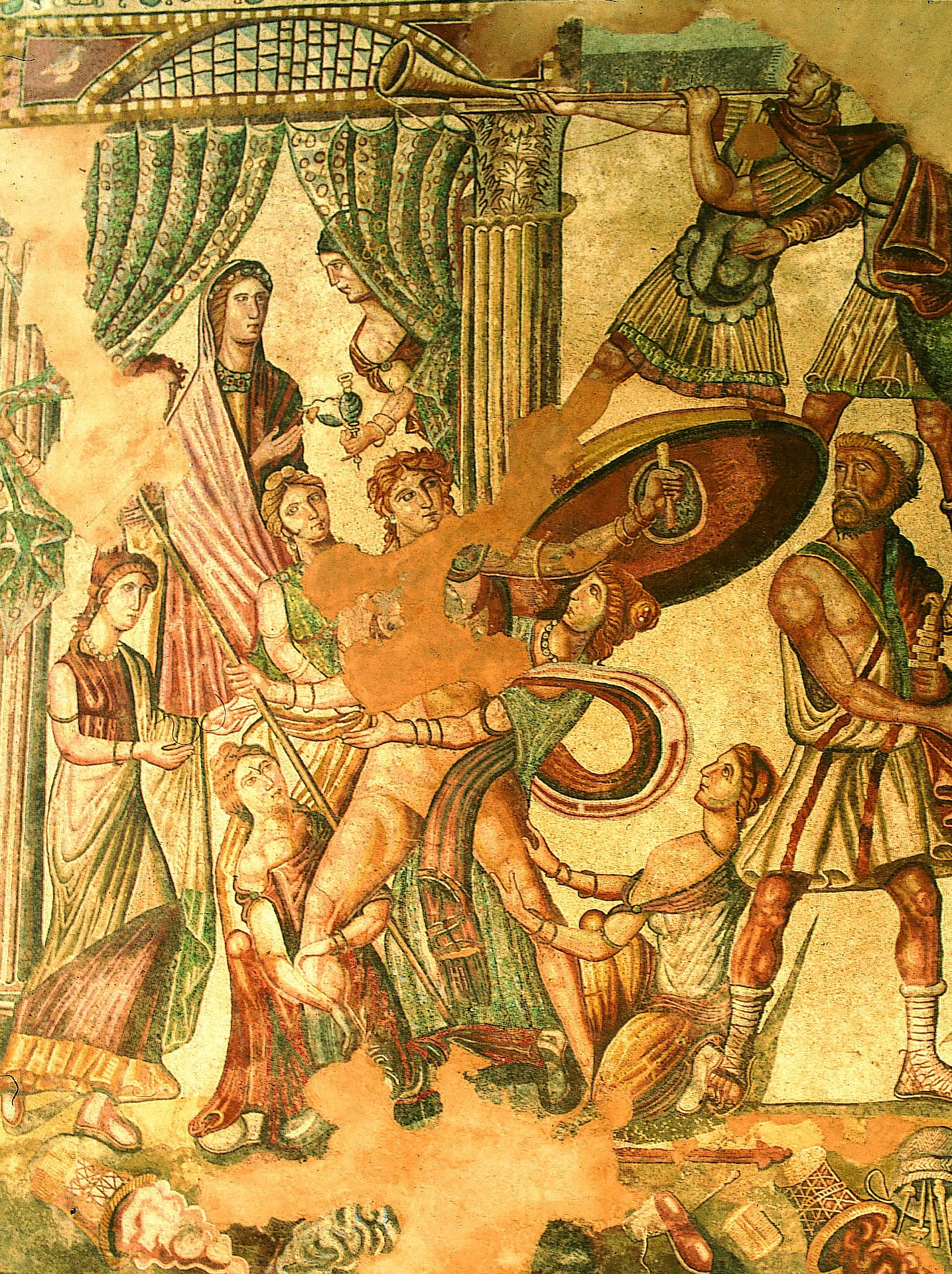 A scene from the Iliad where Odysseus (Ulysses) discovers Achilles dressed as a woman and hiding among the princesses at the royal court of Skyros.A late Roman mosaic from La Olmeda, Spain, marble and tiled glass, 2.20 by 2.50 meters. For full descriptions (in Spanish), see: "Destino Castilla y León" (13 August 2014) and "La Diputación de Palencia aprueba el proyecto básico de la villa romana de La Olmeda, donde se invertirán 6,3 millones" (26 May 2005).